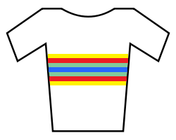 national champions jersey of Namibia